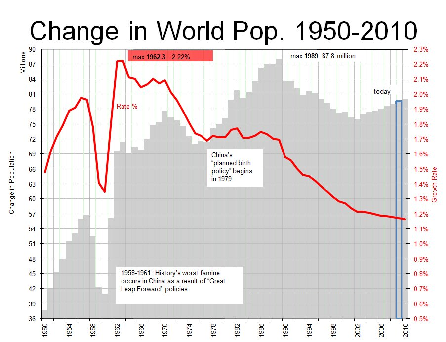 World Population Growth in absolute numbers and in percentage change. From 1950-2010